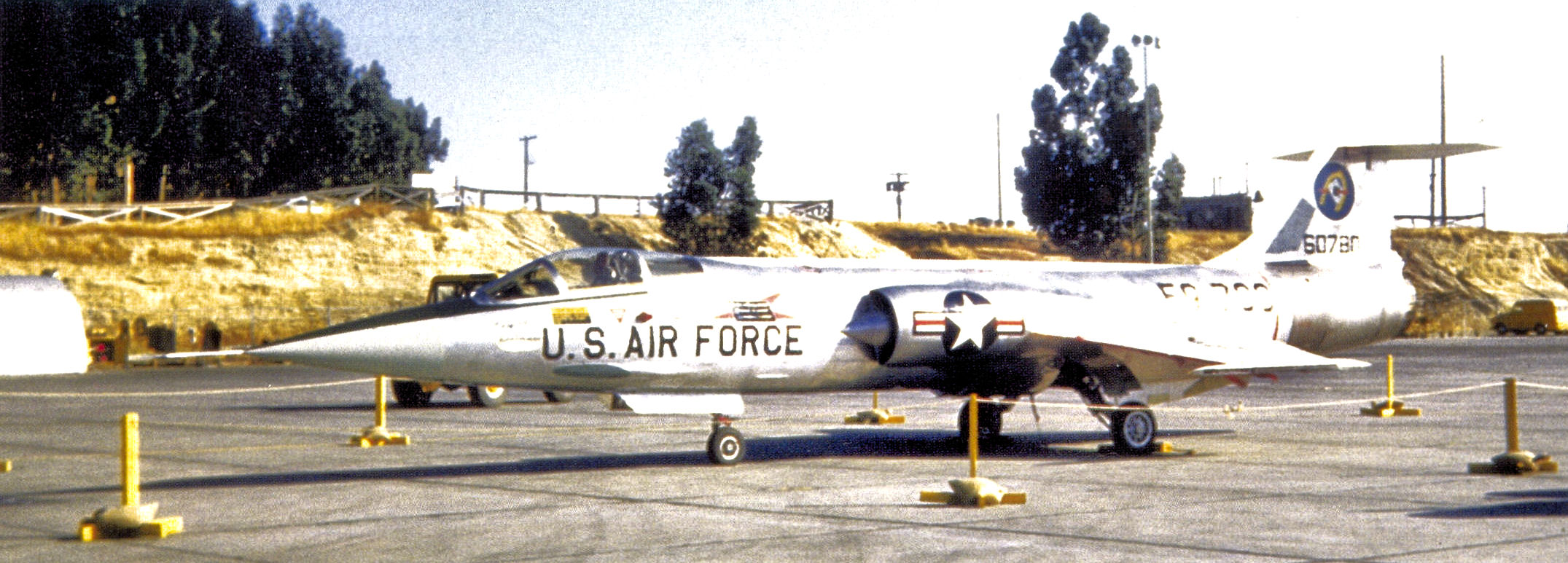 83d Fighter-Interceptor Squadron Lockheed F-104A-15-LO Starfighter 56-780 based at Hamilton AFB, California; shown at Tao Yuan AB, Taiwan TDY to 13th Air Task Force, after 1958 Taiwan Straits Crisis. Aircraft subsequently sold to Taiwan.